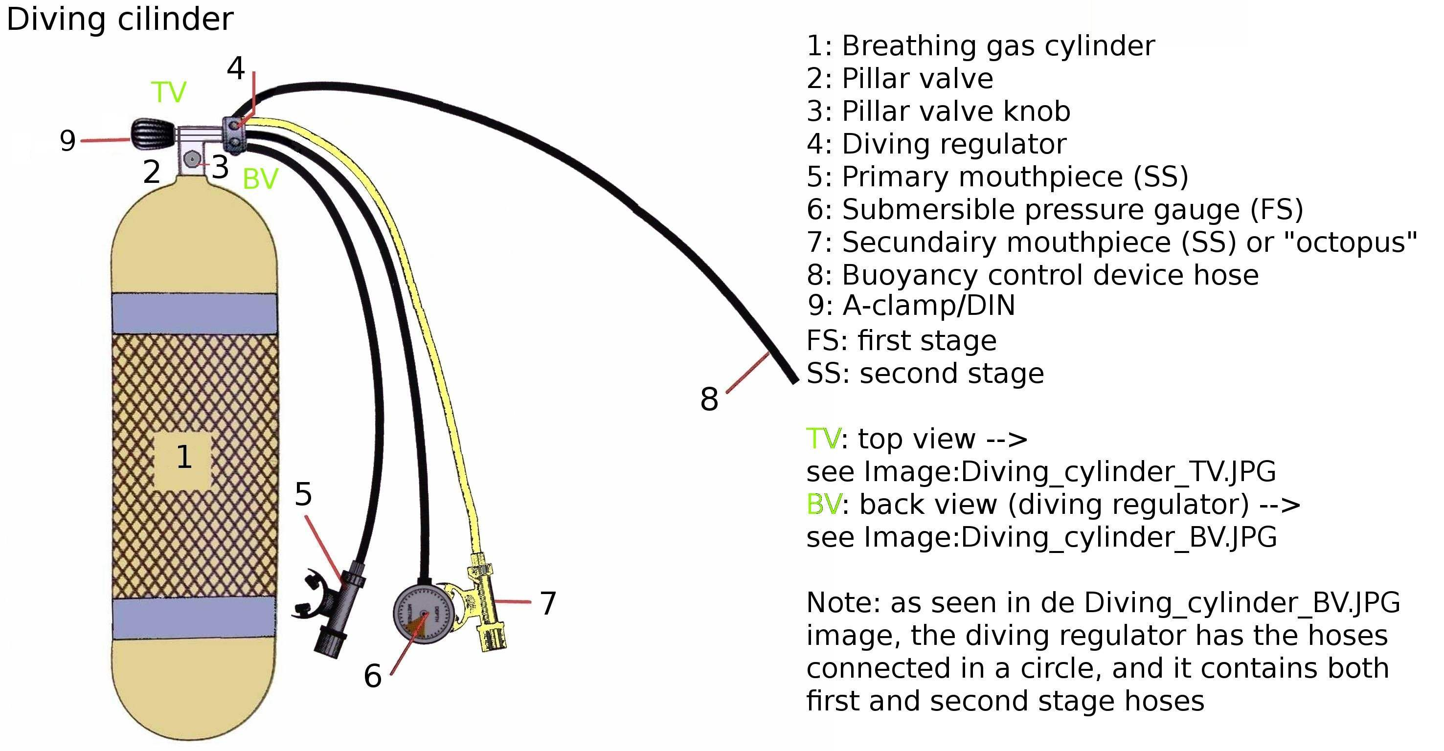 A schematic of a diving cylinder. The schematic was based on an image in the book "Complete diving manual" by Jack Jackson